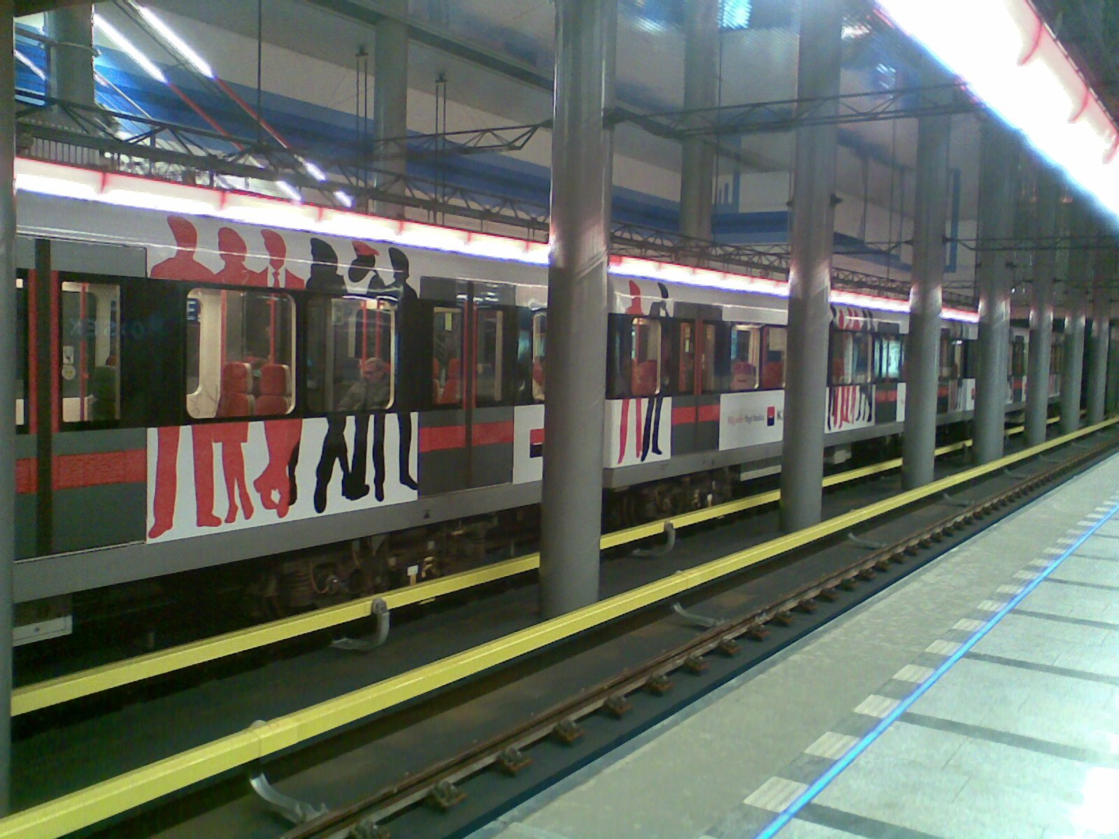 M1 metro train with KB advertisement in Prosek station, Prague, CZhelphelp